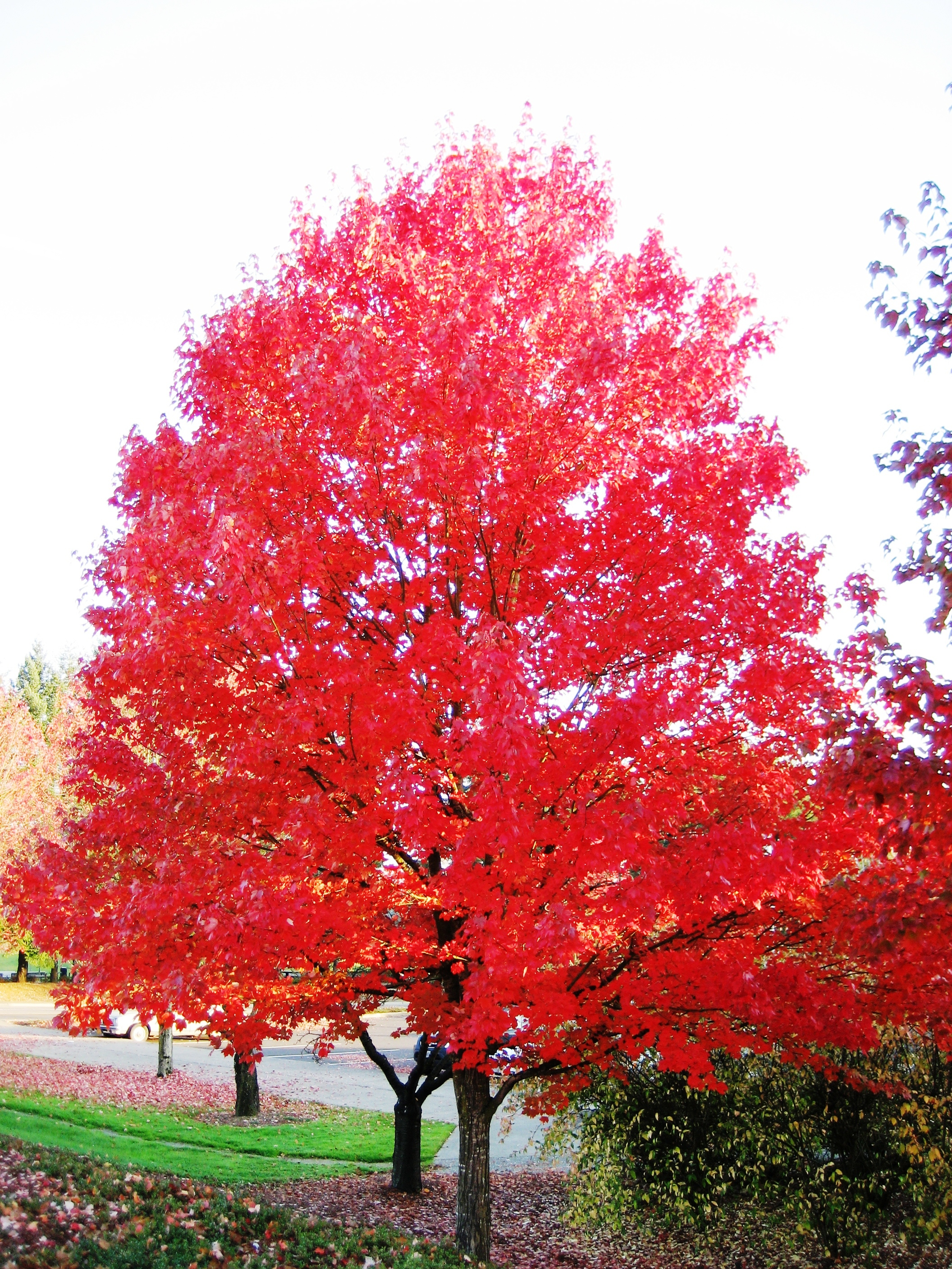 Tree in Wilsonville, Oregon. A maple, probably but not definitely Acer rubrum.